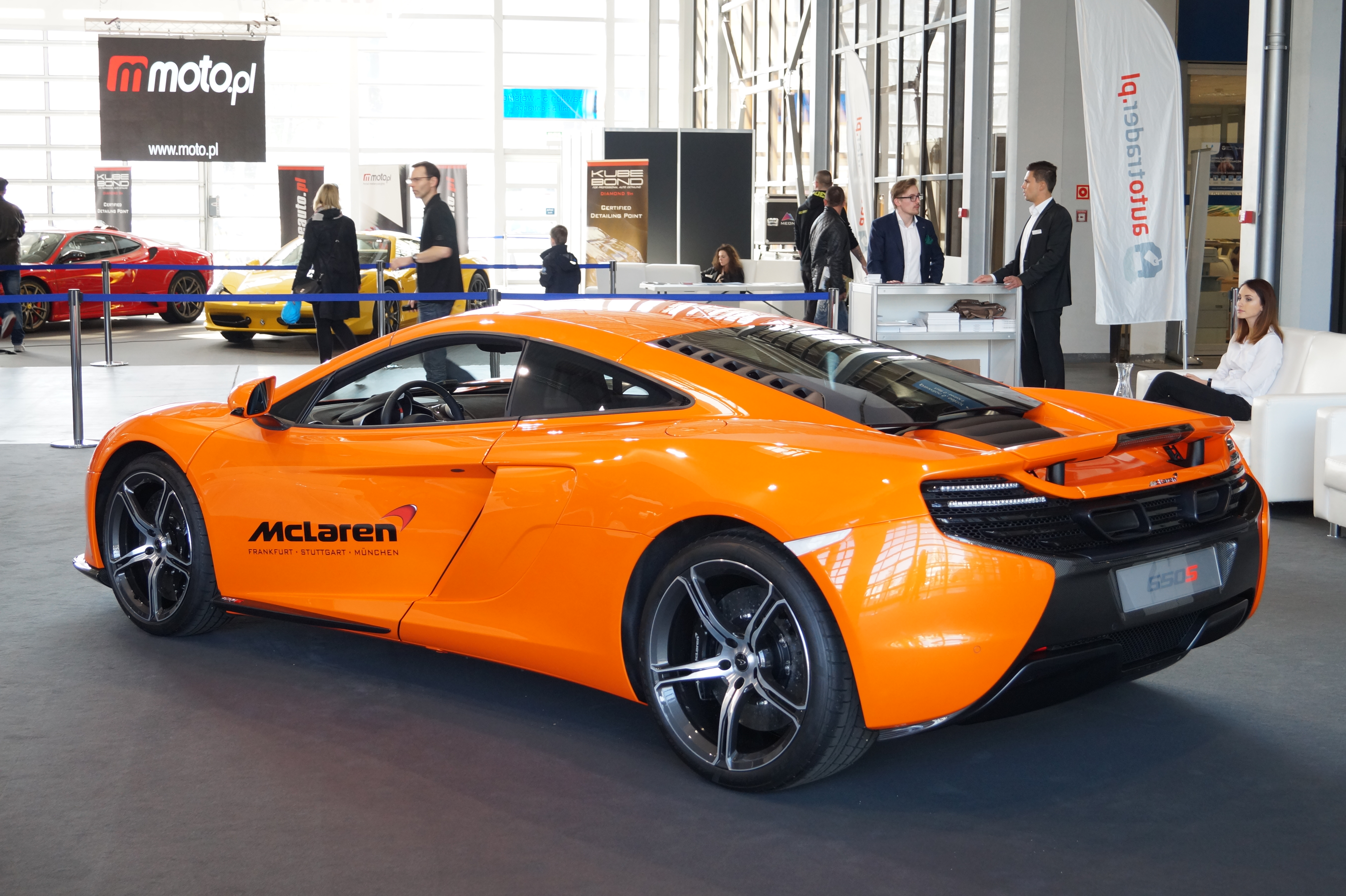 The making of this document was supported by Wikimedia Polska Association, within Wikigrant no. WG 2015-19. English | polski | +/− Tył McLarena 650S na Motor Show Poznań 2015